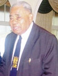 Fiji President Josefa Iloilo (right) shakes hands with the United States Ambassador to Fiji Steven McGann (left)